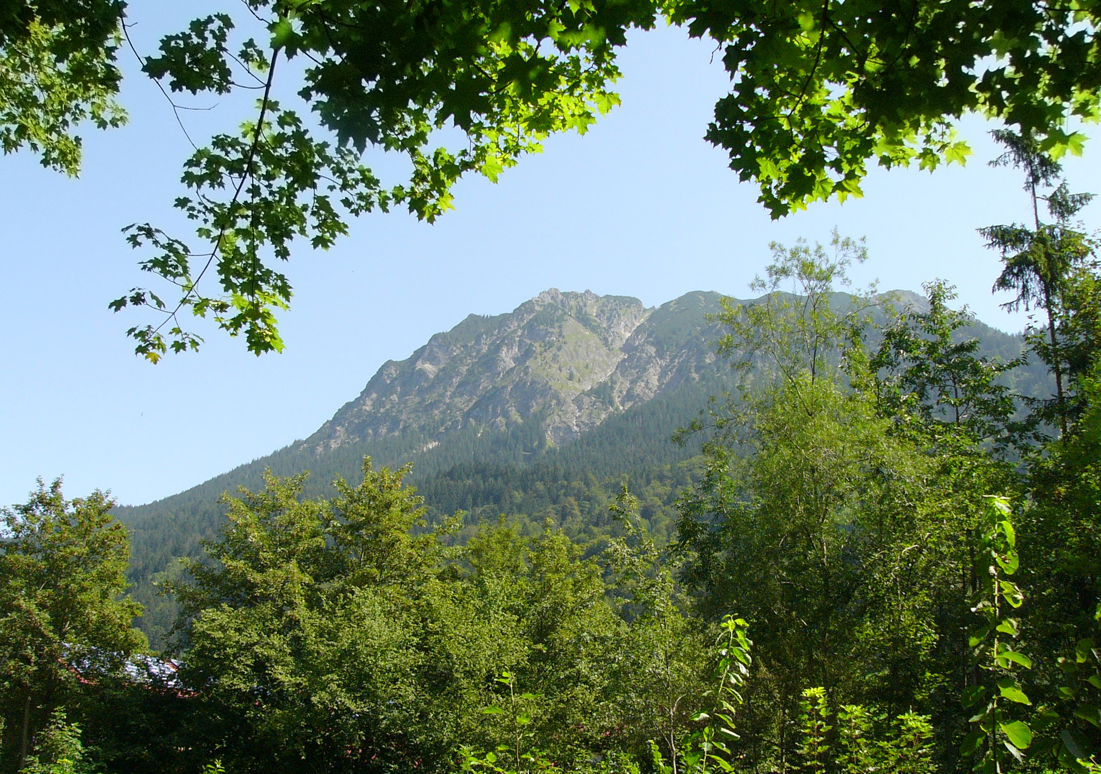 View to the mountain Rubihorn east of Oberstdorf, Bavaria, Germany.